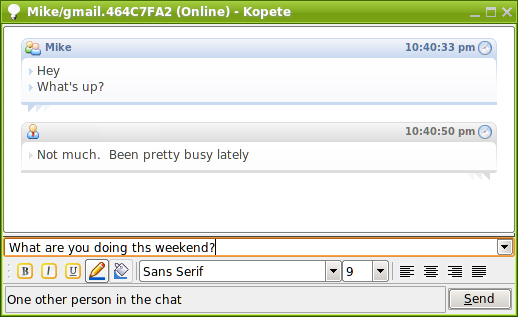 Screeshot of a sample Kopete chat session